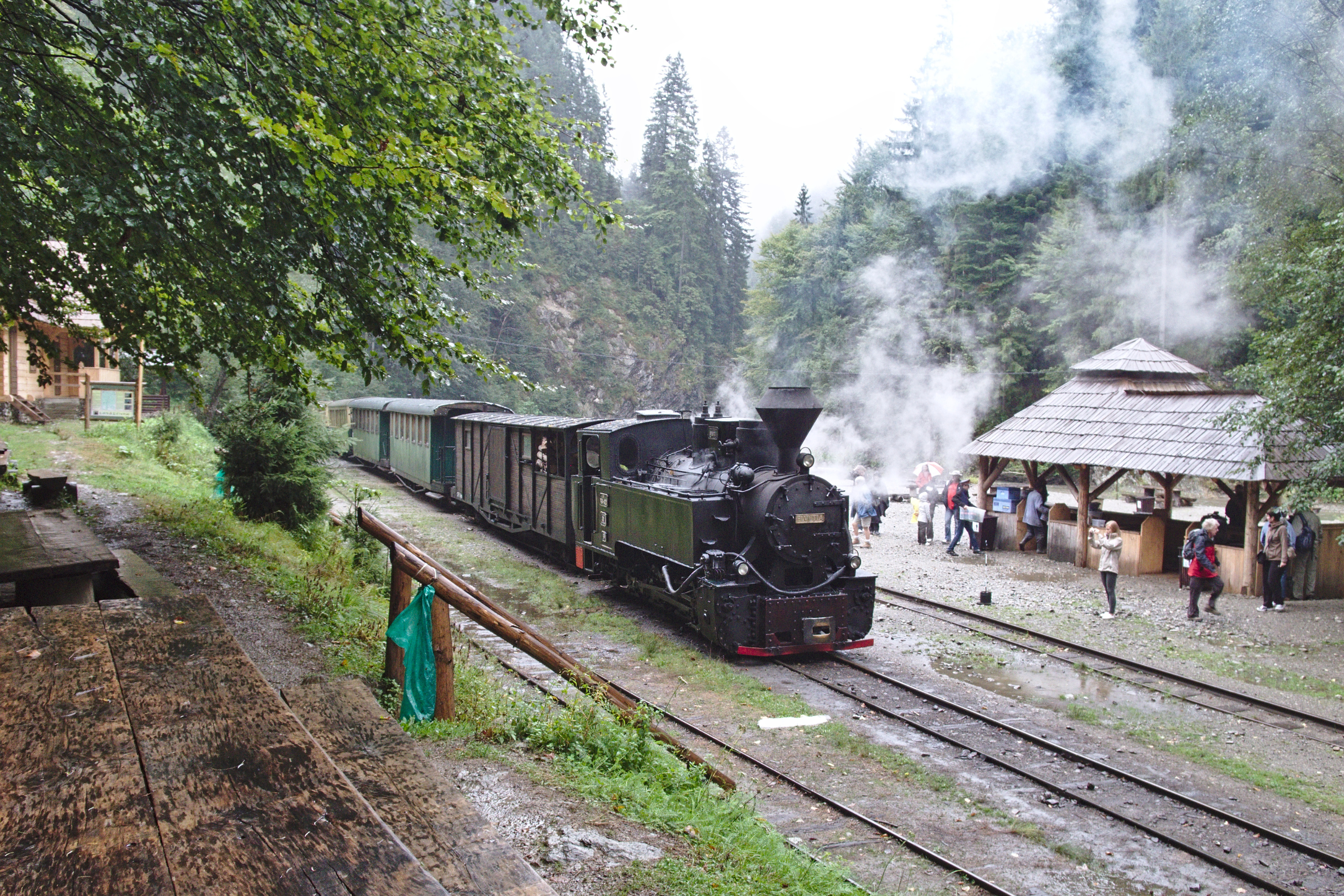 A tourist train with 764-421 has just entered its terminus Paltin station. Some touristical facilities are located in this place.